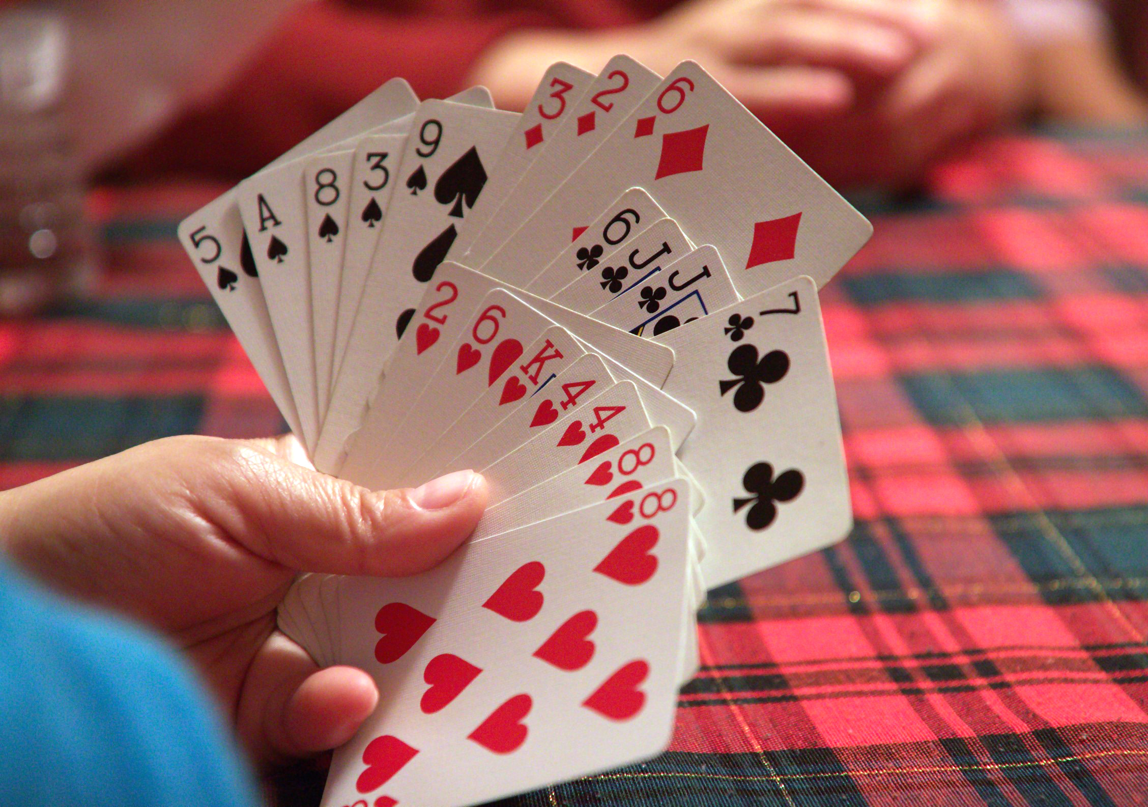 A player holding a hand of nineteen cards.